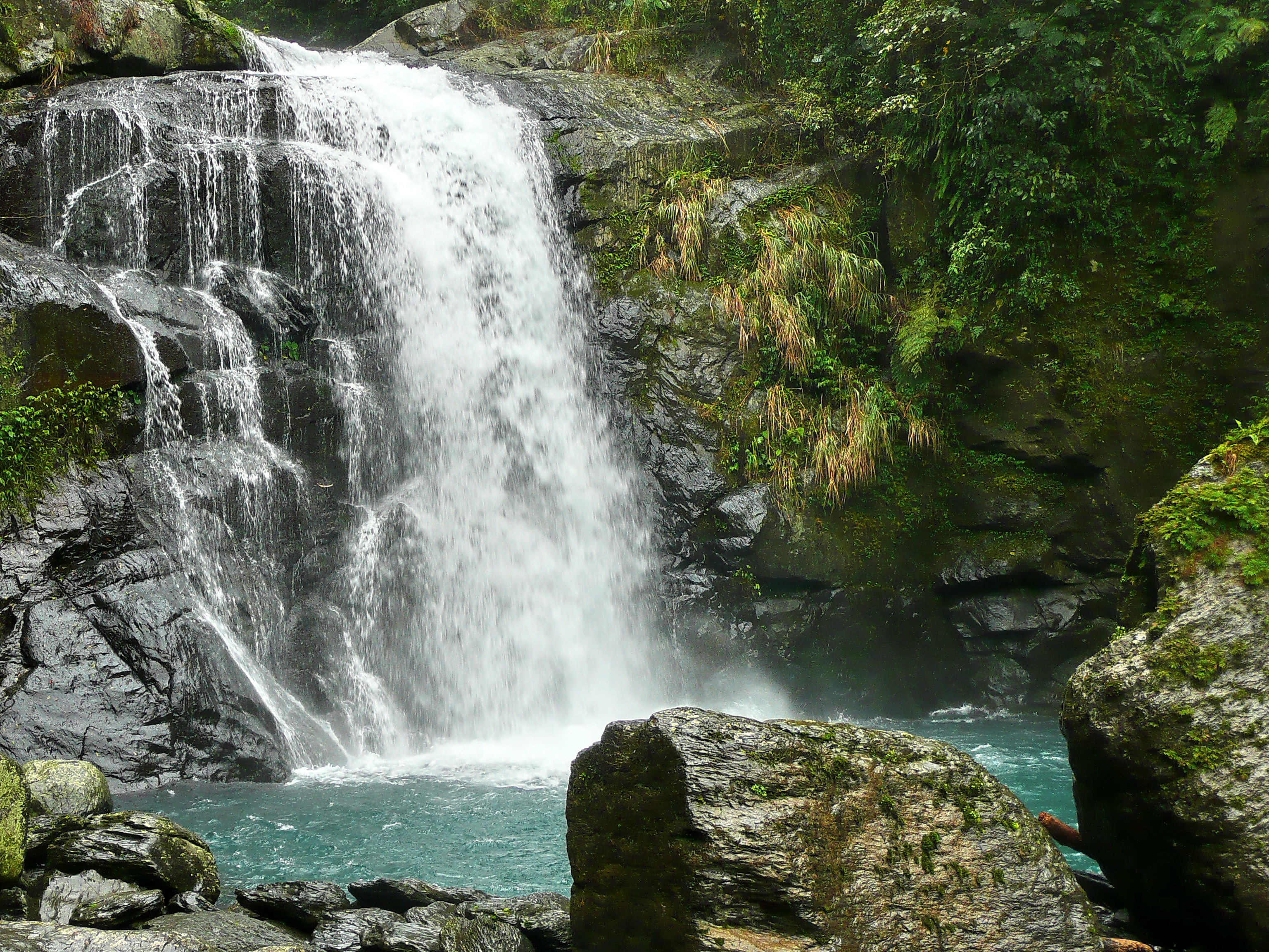 Taian Waterfall 泰安瀑布